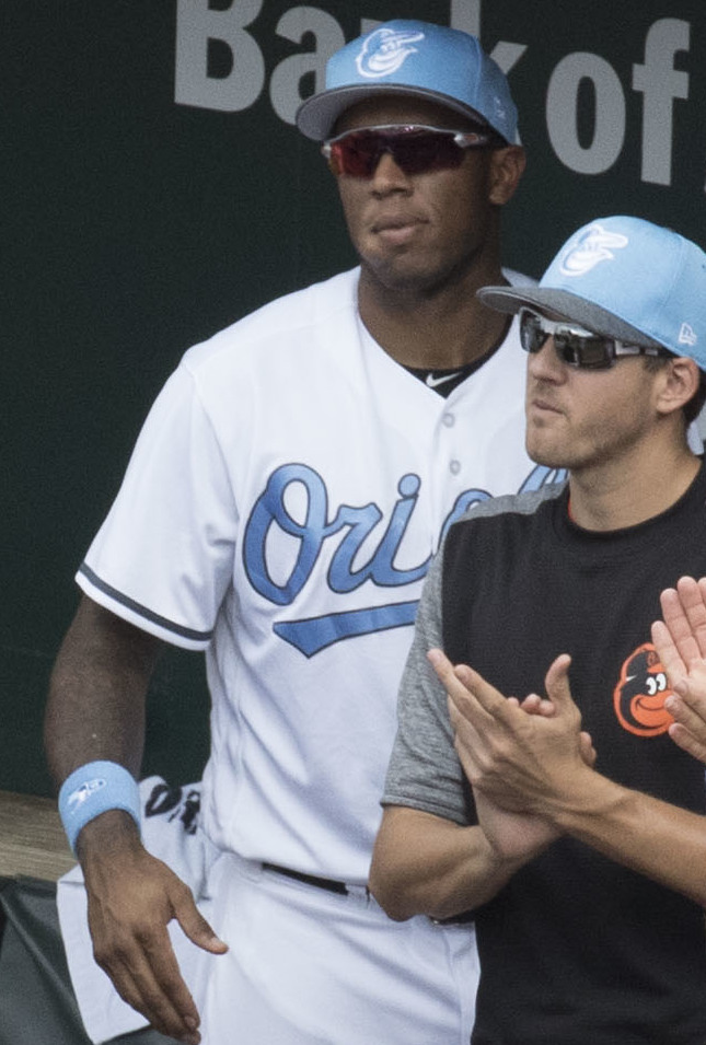 Ubaldo Jimenez approaches the Baltimore Orioles' dugout at Camden Yards during a 2017 game in Baltimore